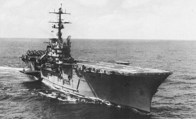 The U.S. Navy helicopter carrier USS Guam (LPH-9) underway in the Caribbean, in 1965.